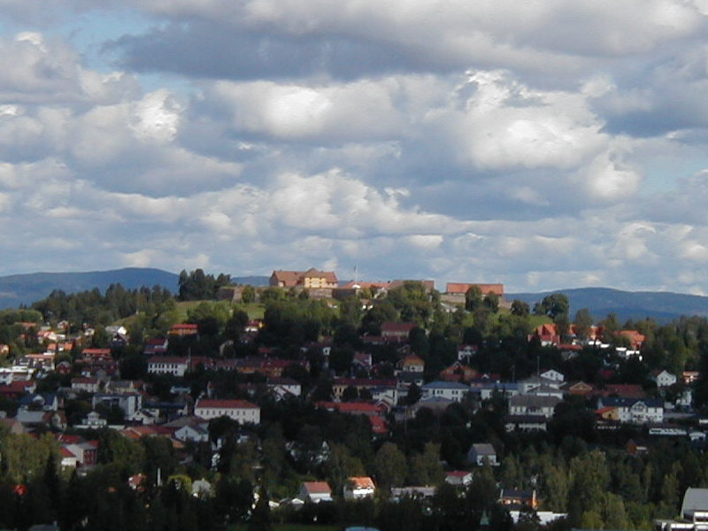 Tråstadberget in Kongsvinger with Kongsvinger Fortress and Øvrebyen. Taken from south.